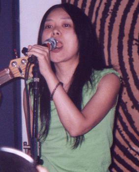 Photo (taken by me) of Miho Hatori. Taken during a solo performance at "Pianos" in New York City.